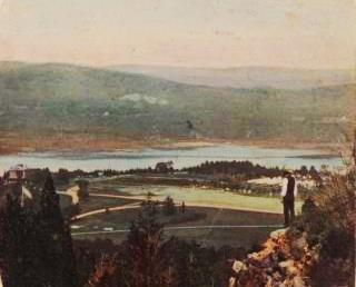 Digital ID: G91F051_014F. E. & H.T. Anthony (Firm) -- Photographer. [1860?-1875?] Source: Robert N. Dennis collection of stereoscopic views. / United States. / States / New York / Beauties of the Hudson. ( Repository: The New York Public Library. Photography Collection, Miriam and Ira D. Wallach Division of Art, Prints and Photographs. See more information about and others at Persistent URL: Rights Info: No known copyright restrictions; may be subject to third party rights (for more information